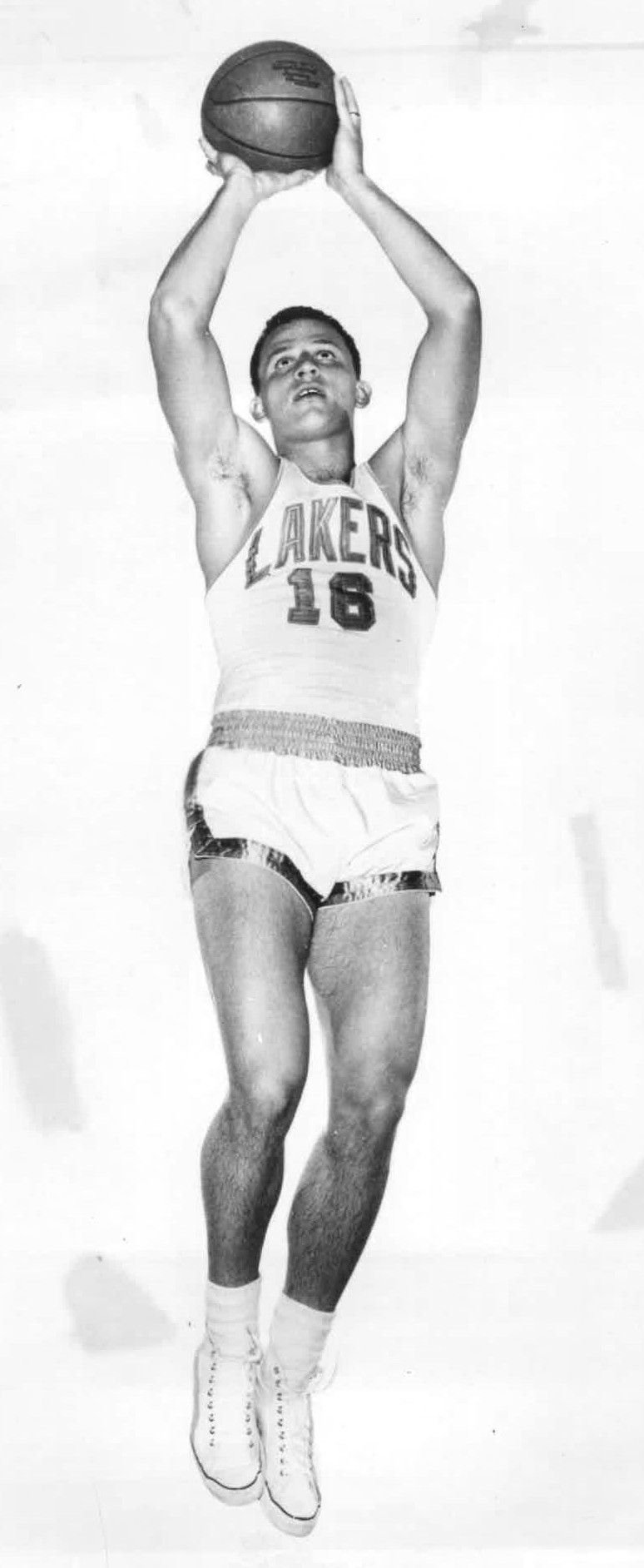 Professional basketball player Dick Garmaker